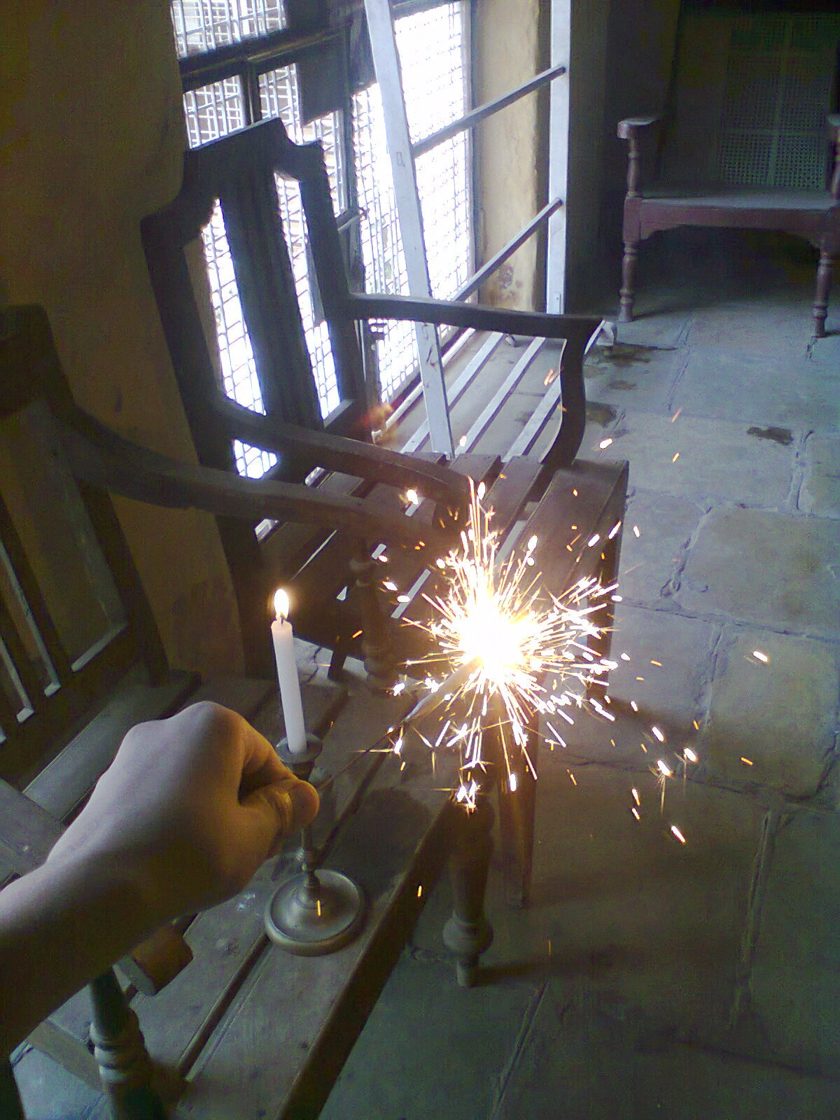 This image of fireworks is a photo.